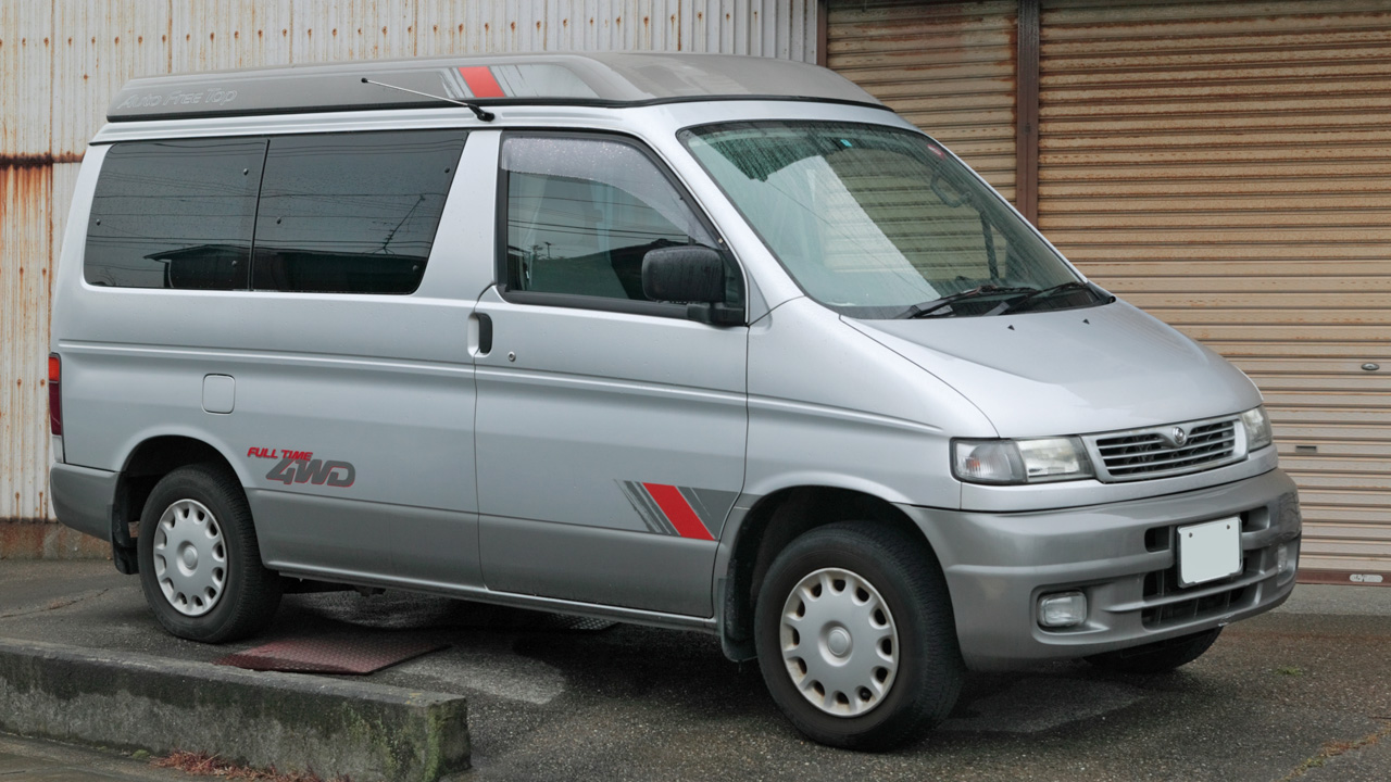 Mazda Bongo Friendee, with Auto Free Top.